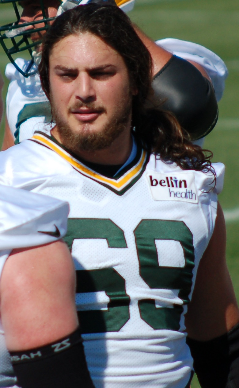 2015 Packers training camp